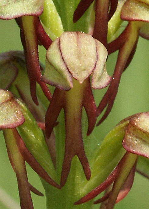 Fragment of Image:Aceras anthropophorum flowers.jpg